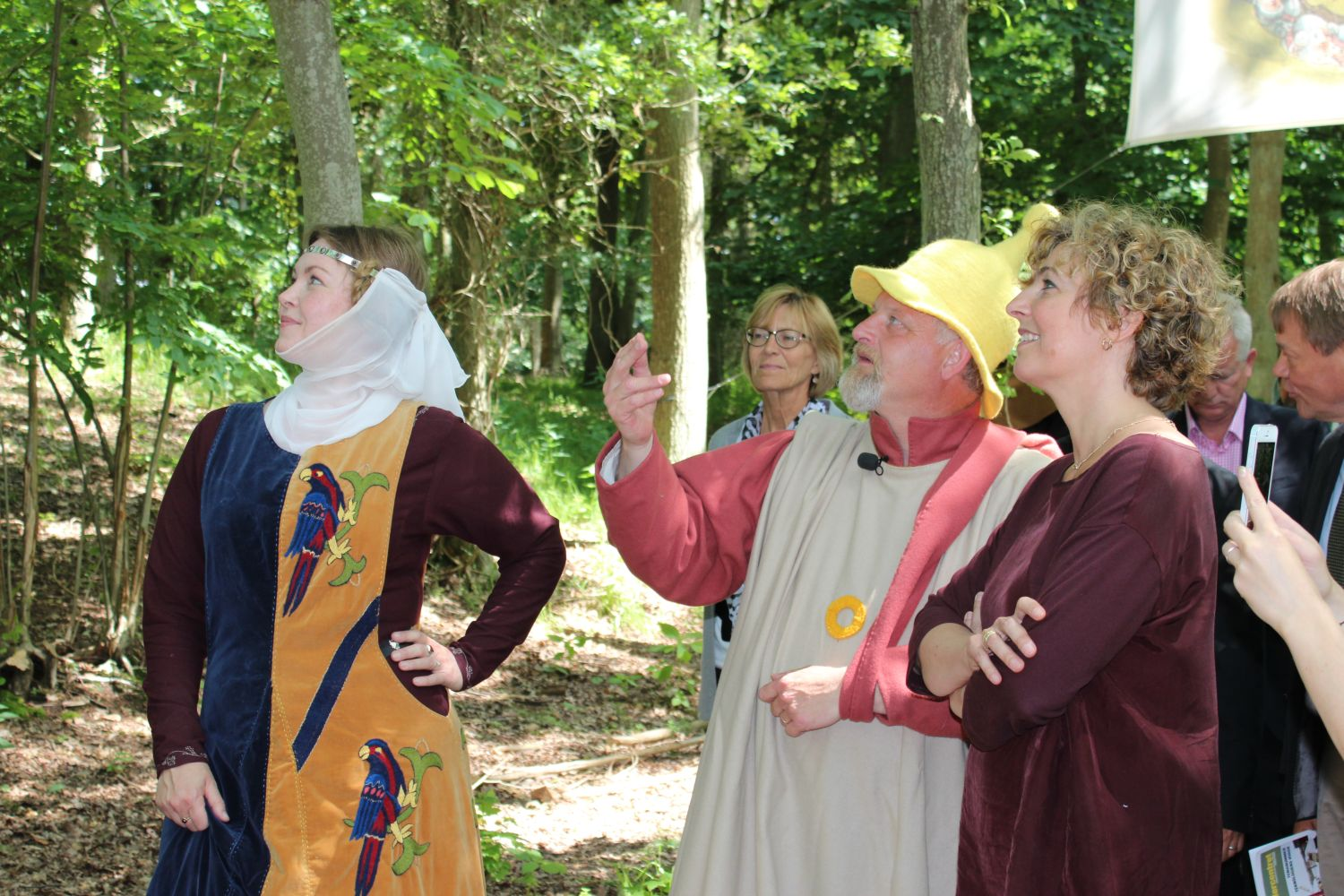 Danish minister of education Christine Antorini and museums inspector Kåre Johannessen at Middelaldercentret in June 2013